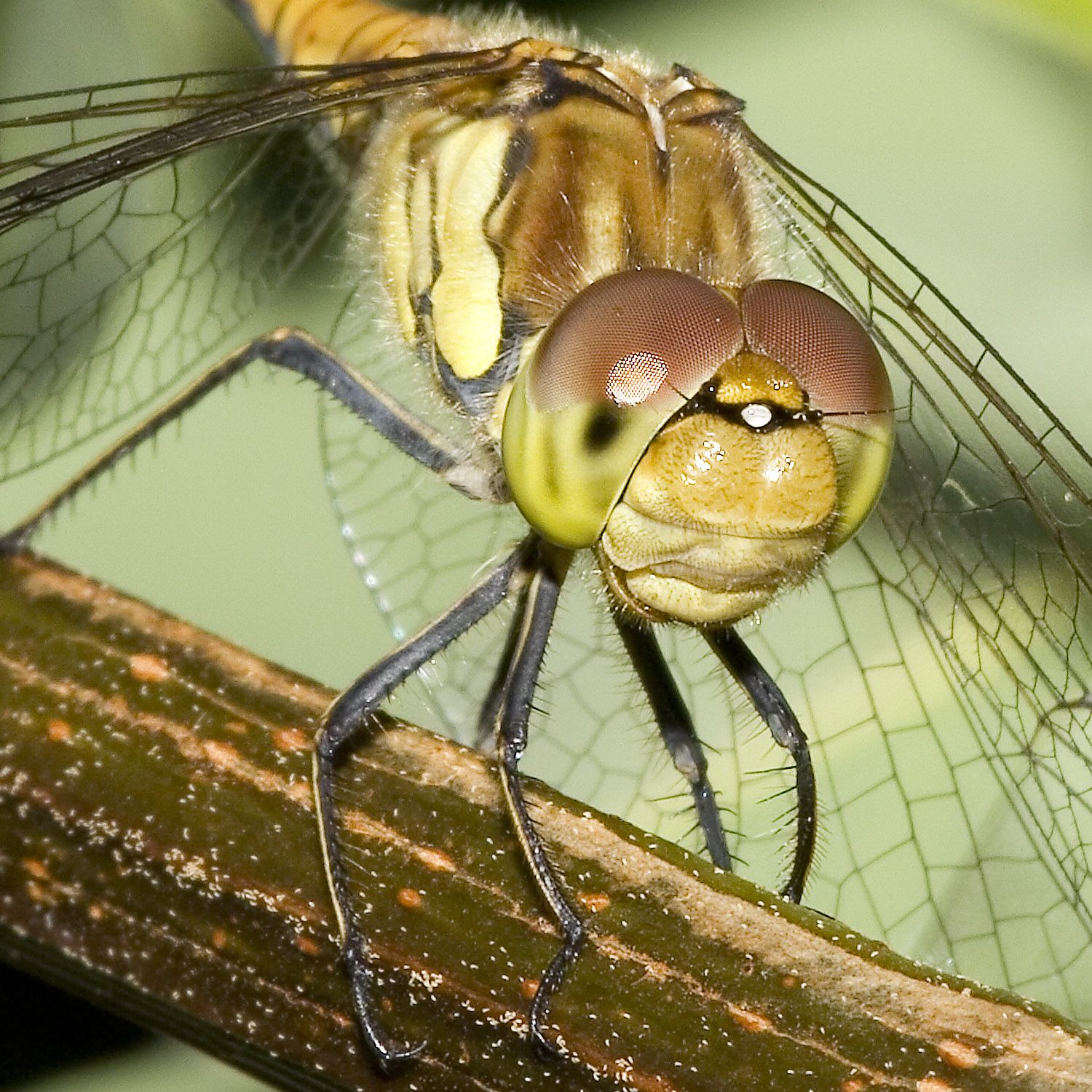 Common Darter, Sympetrum striolatum